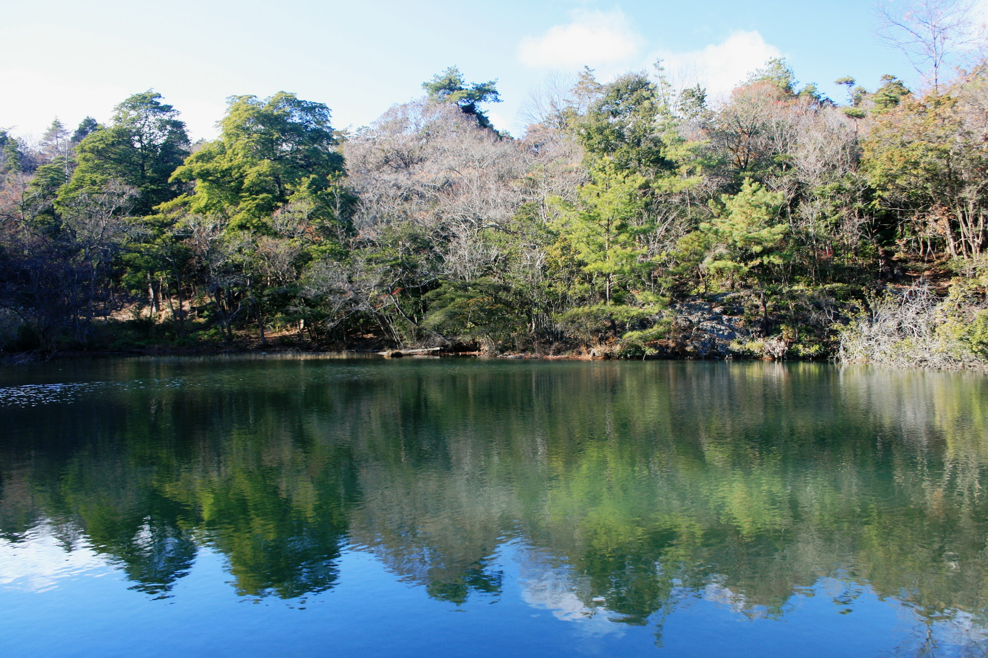 Midorigaike_of_Tado